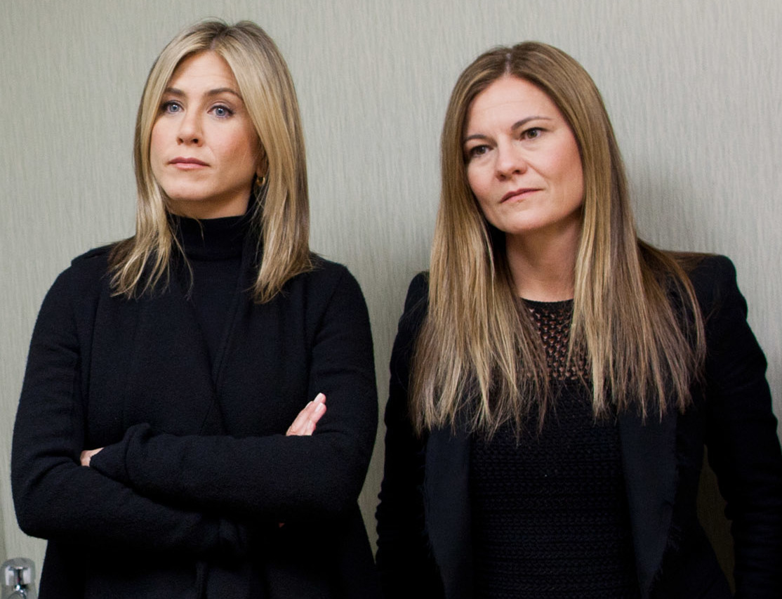 Actress Jennifer Aniston and film producer Kristin Hahn during a tour of the Inova Breast Care Center in Alexandria, Va., Oct. 3, 2011. Aniston and Hahn were in Washington for a screening of their breast cancer-related film, Five.